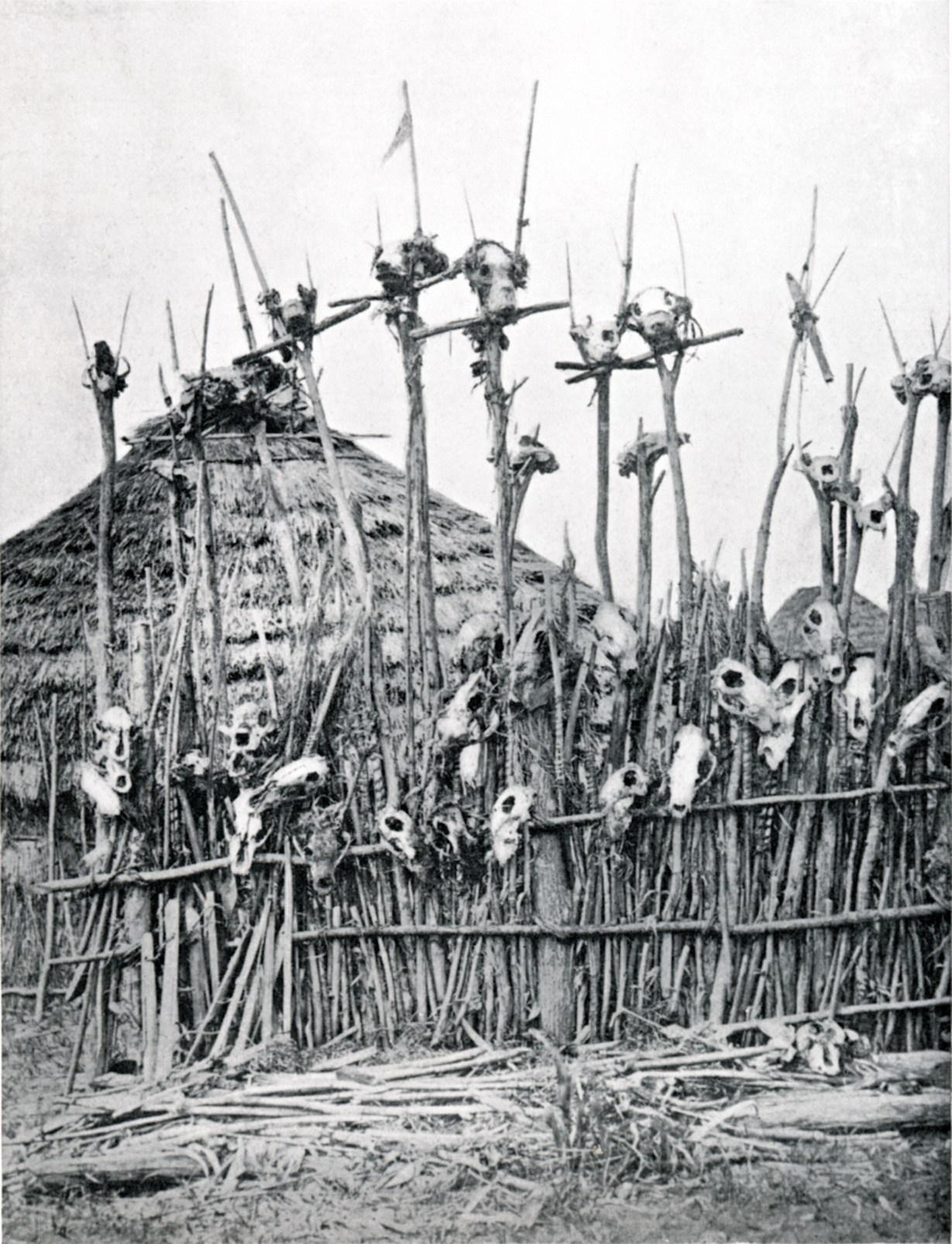 Bear skulls set up for worship.After the feast, which has a religious significance, the skull of the baer is set up on a forked post decorated with whittled wands (inao), and is worshipped at subsequent feasts.